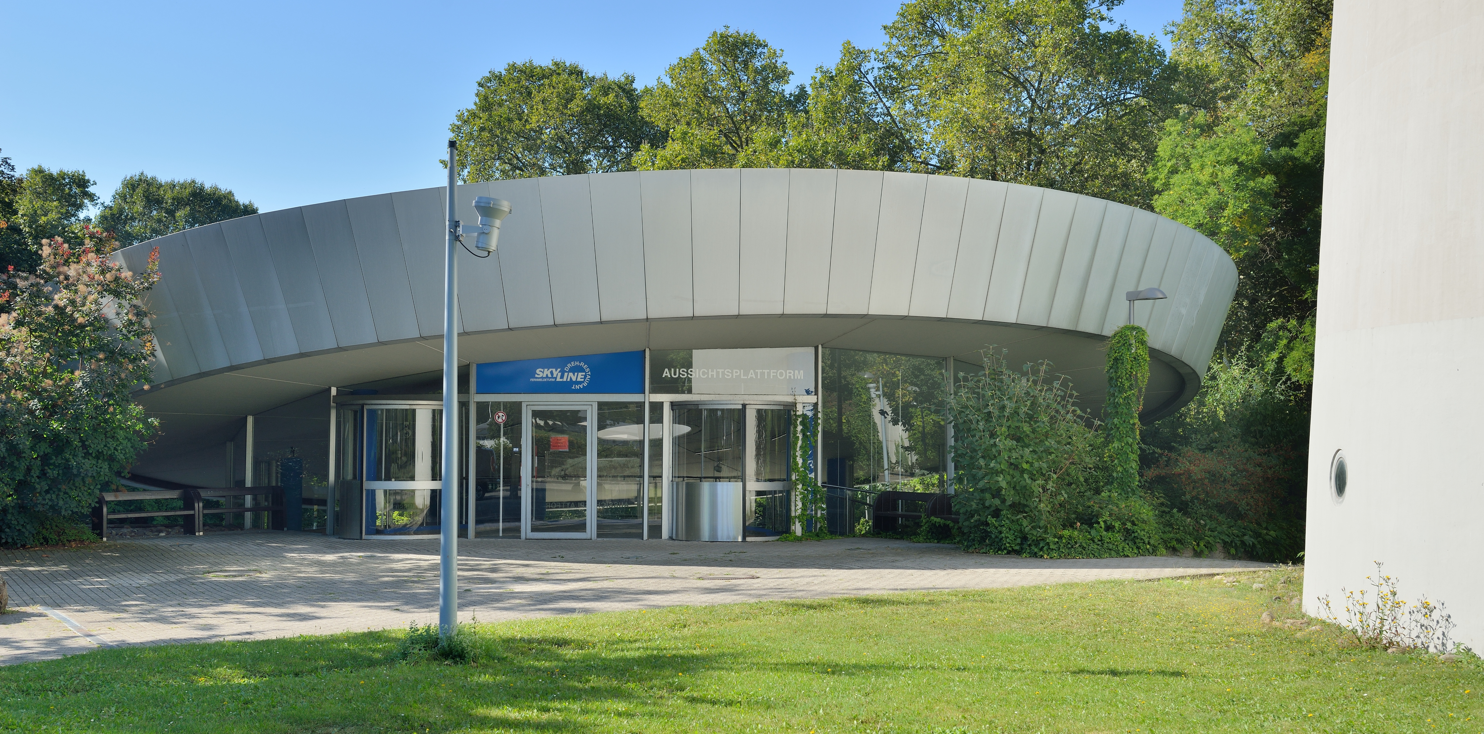 Mannheim: TV Tower, basement building